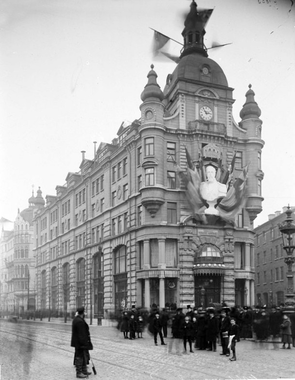 KM Lundbergs department store, Stureplan, Stockholm